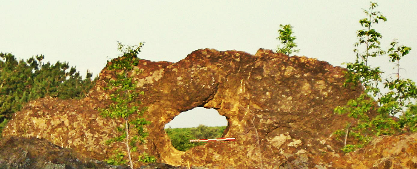 Glushnik megalithic observatory BG